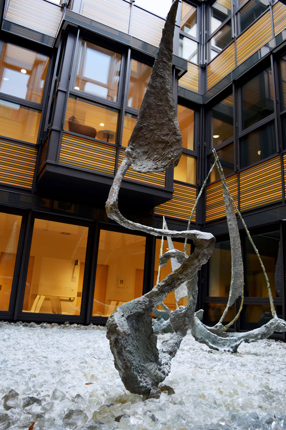 Paul Gerhadt Haus (Hospital), Regensburg - atrium art